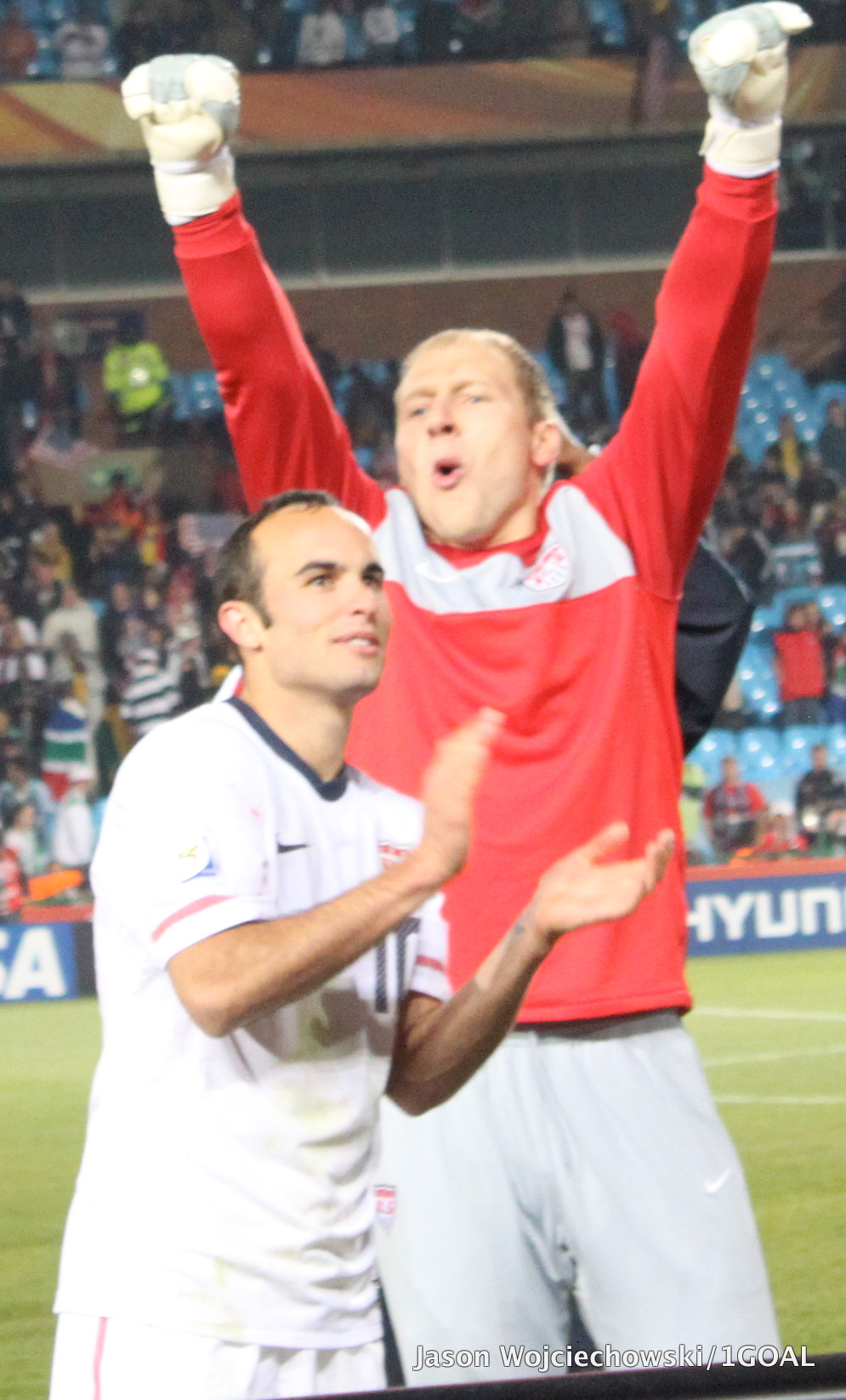 The USA defeated Algeria 1-0 in Pretoria to advance to the round of 16 at the World Cup in South Africa